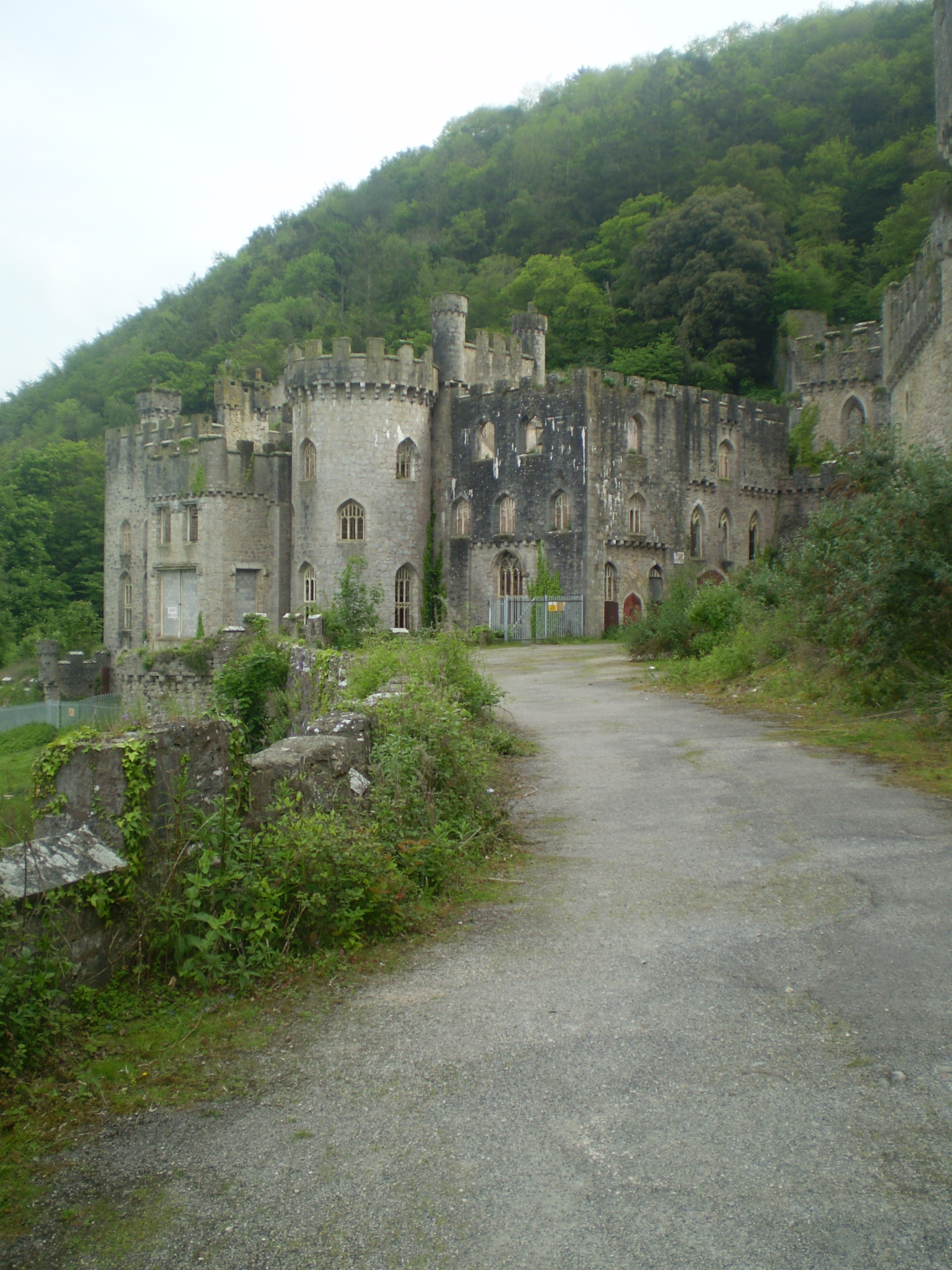 gwrych castle, abergele